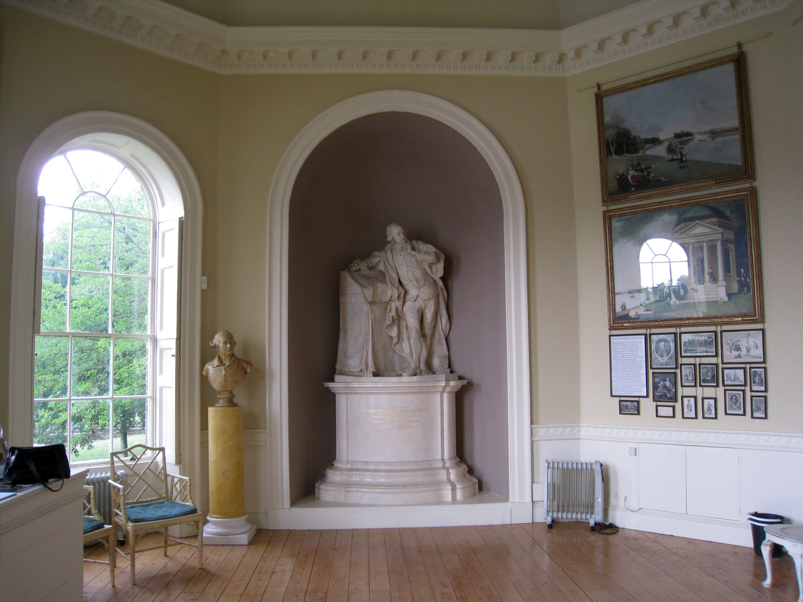 Garrick's Temple to Shakespeare, interior as seen from the entrance